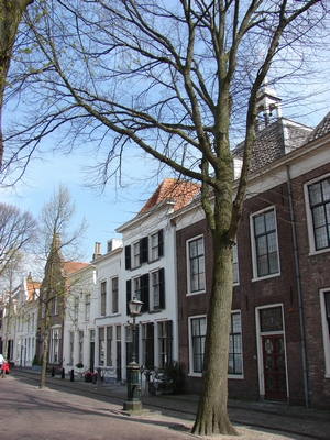 Sommelsdijk centre